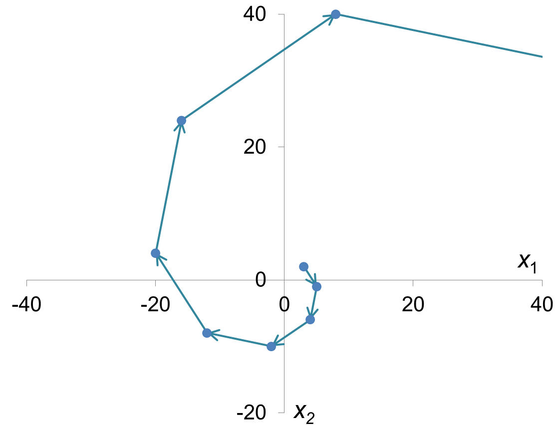 An orbit of spiral source on the two-dimensional linear discrete dynamical system, x 1 ( n + 1 ) = x 1 ( n ) + x 2 ( n ) , {\displaystyle x_{1}(n+1)=x_{1}(n)+x_{2}(n),} x 2 ( n + 1 ) = − x 1 ( n ) + x 2 ( n ) . {\displaystyle x_{2}(n+1)=-x_{1}(n)+x_{2}(n).} The initial condition is x1 = 3 and x2 = 2.